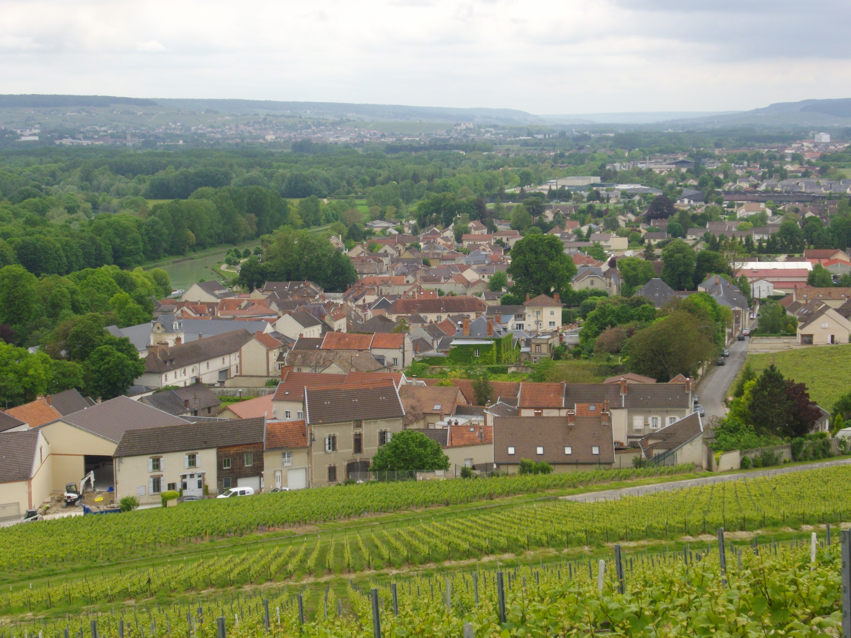 Mareuil-sur-Ay (Marne, France), from the Gruguet site